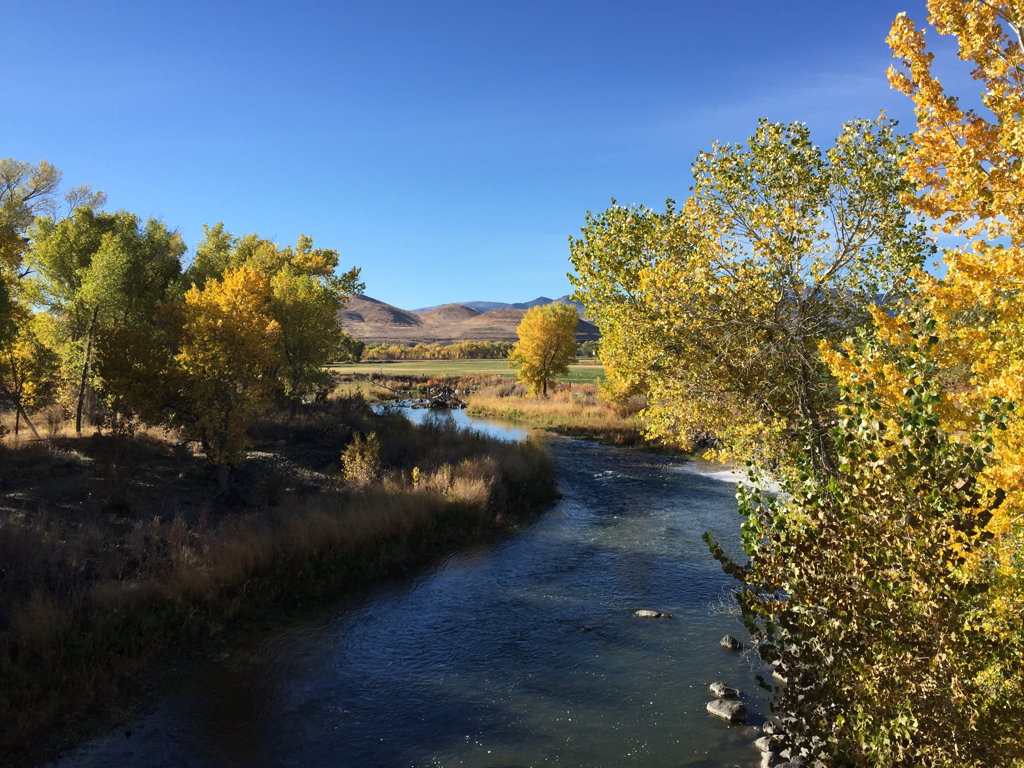 View south up the Poplar-lined Truckee River during autumn from the Main Street (Nevada State Route 427) bridge in Wadsworth, Nevada